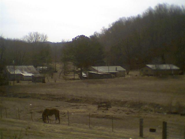 This is a picture of Houston, TN in 2010